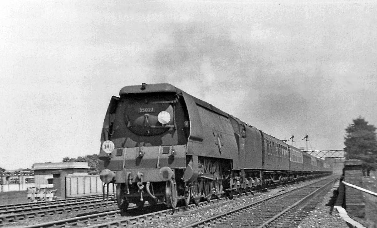 Mytchett, Surrey with Waterloo - Weymouth express at Sturt Lane Junction. View eastward, towards London: ex-LSW Waterloo - the West main line, east of Farnborough where connection was made with the Ascot - Aldershot line. The 13.30 Waterloo - Weymouth express is headed by SR Bullied 'Merchant Navy' Pacific No. 35027 'Port Line' (built 12/48, subsequently rebuilt 10/59, withdrawn 9/66 but preserved): it is currently on the East Lancashire Railway.